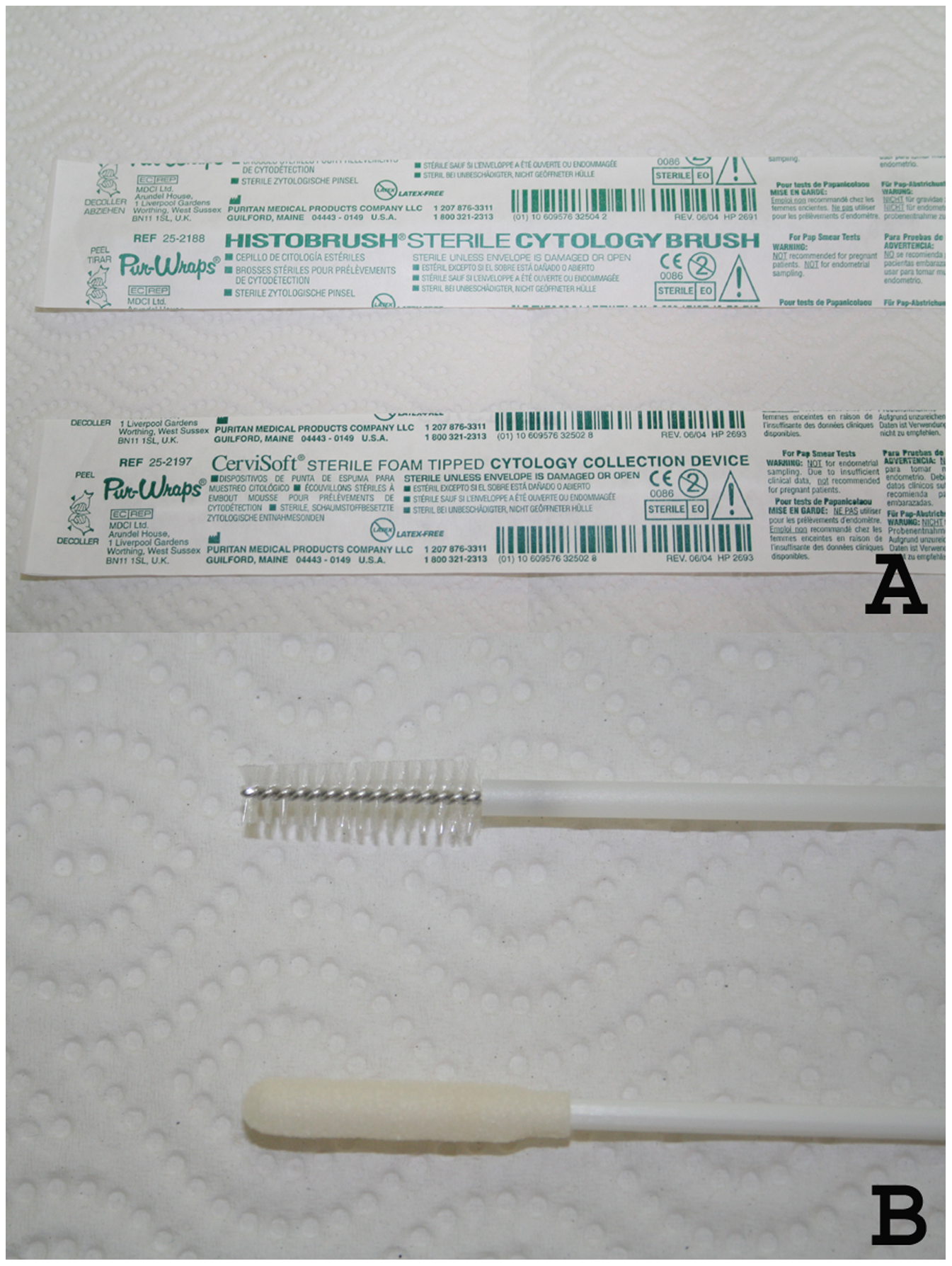 Figure 1. Cervical cytology brushes. A, sterile wrapped CerviSoft® and Histobrush® cervical cytology brushes; B, CerviSoft® and Histobrush® cytology brush tips.